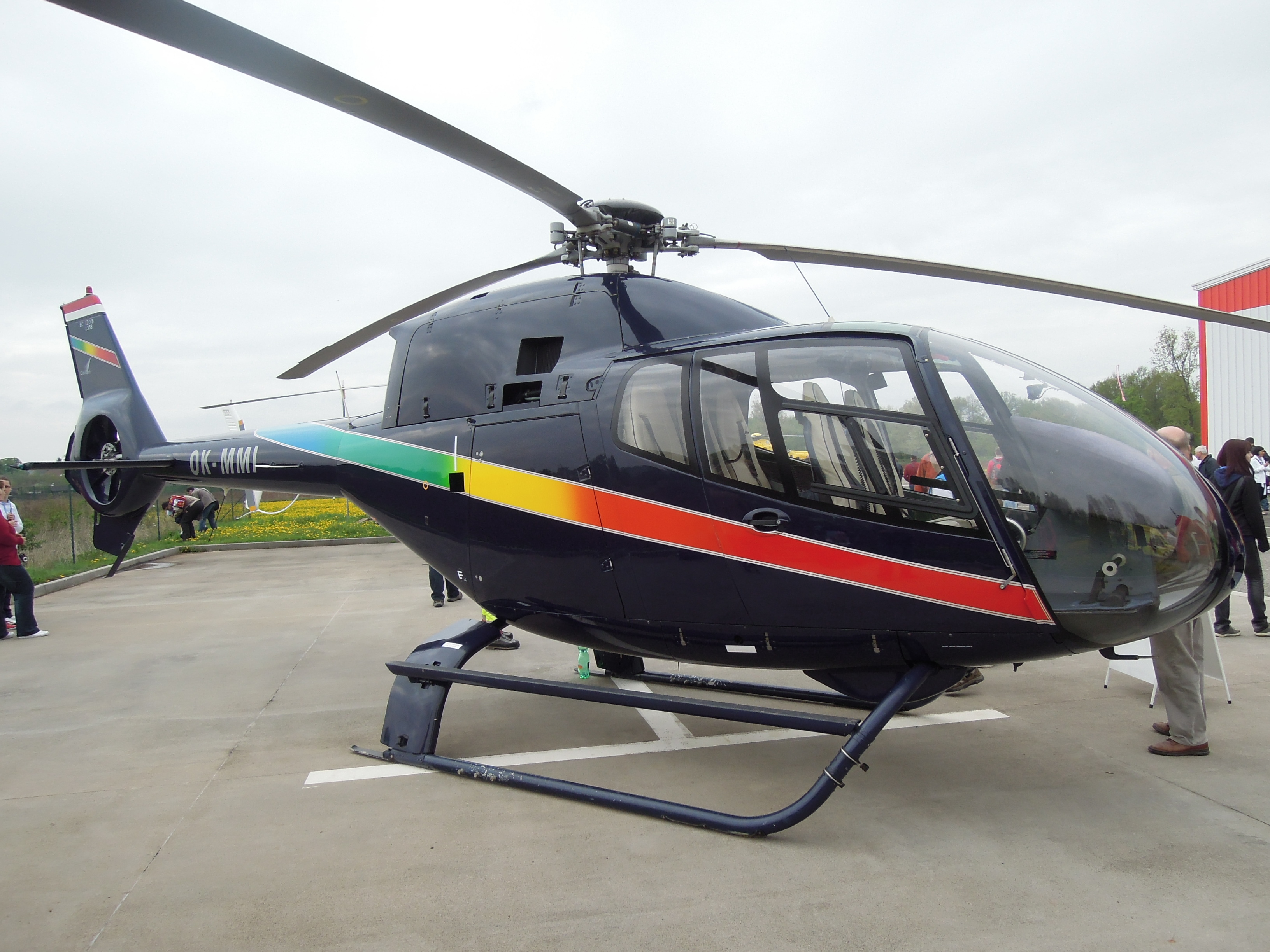 Helicopter Eurocopter EC120 Colibri of DSA company, Czech Republic